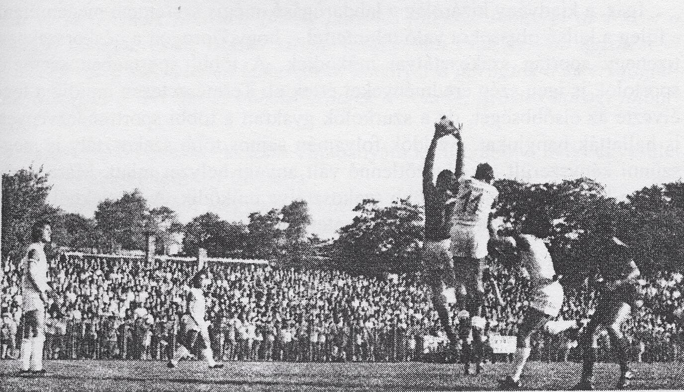 Stadium is full